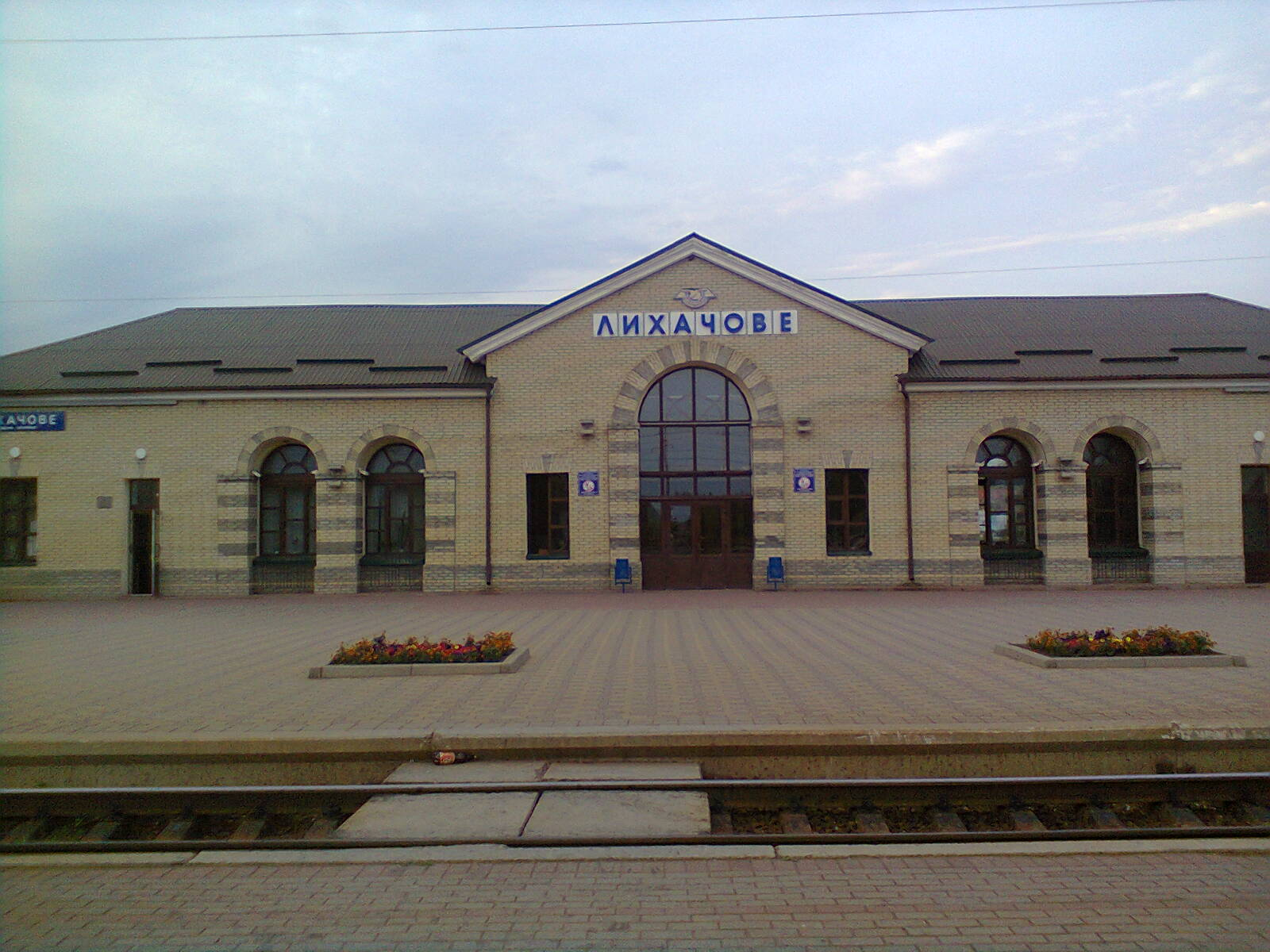 Railway Station Pervomaiski